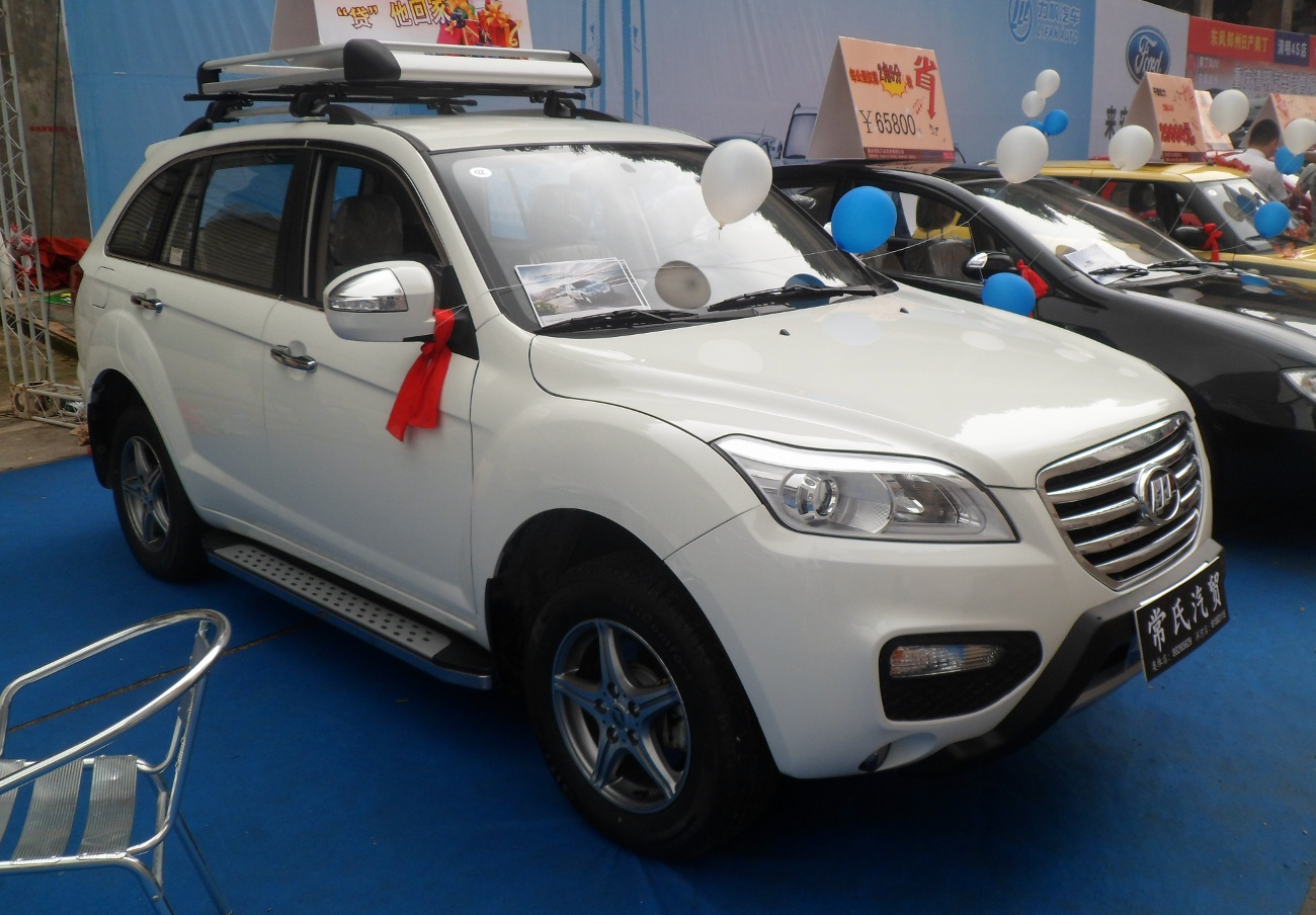 Lifan X60 photographed at the 2012 Chongqing Auto Show, Chongqing, China.